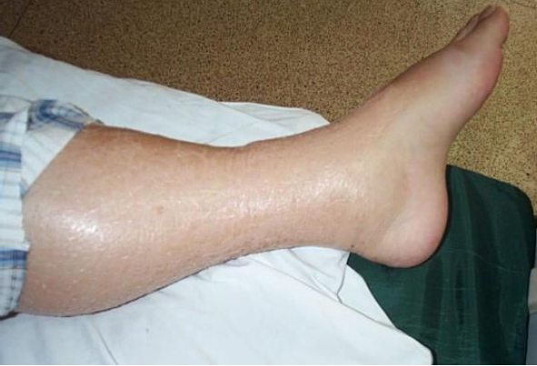 Interleukin-11 (IL-11) caused leg edema, due to capillary leak syndrome.